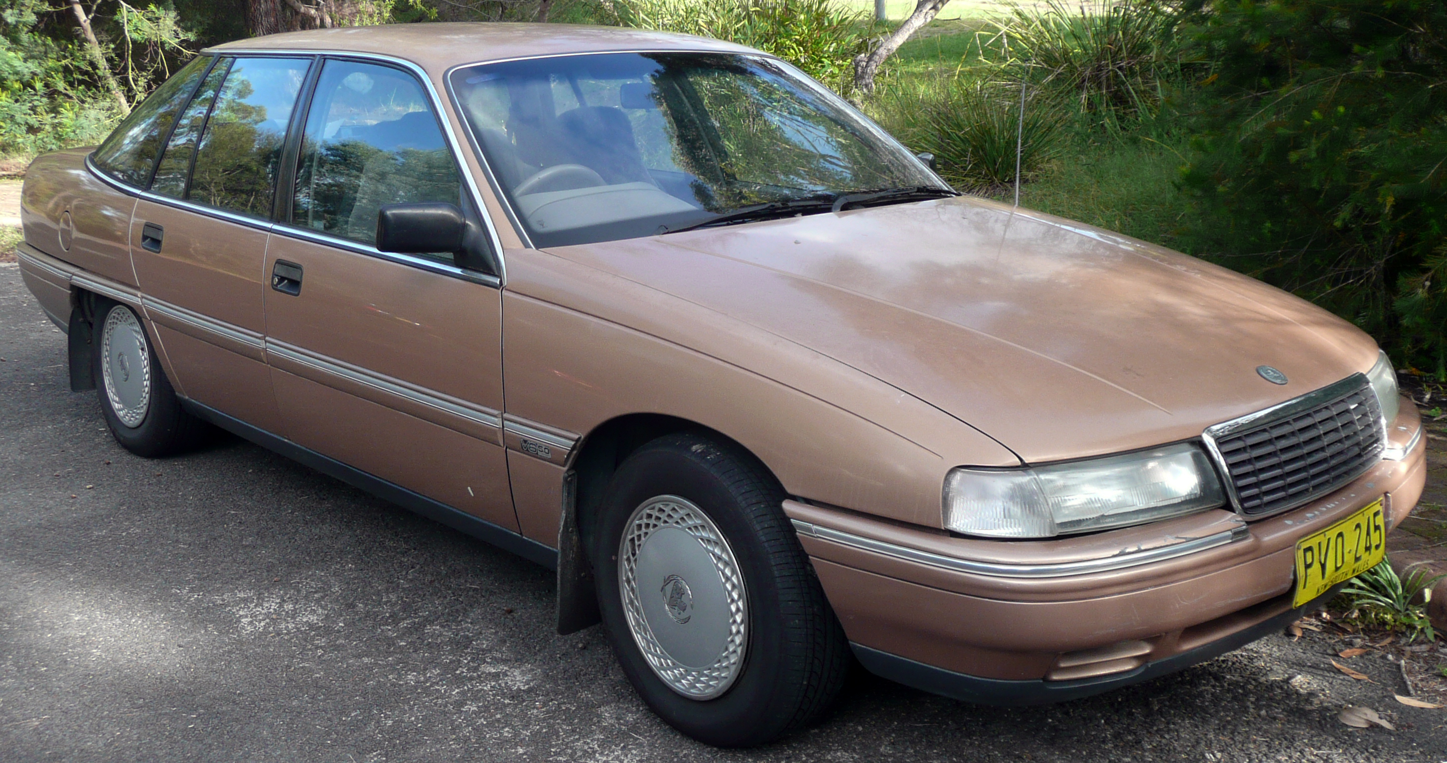 1990 Holden Statesman (VQ) sedan. Photographed in Audley, New South Wales, Australia.